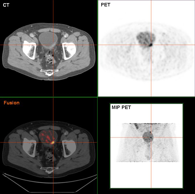 Bladder tumor in FDG PET/CT; SUV=10,5 ; due to the high physiological FDG-concentration in the bladder, Furosemide was supplied together with 200 MBq FDG (Patient-Weight: 95 kg). Patient drank two liters water. Scan 3 hours after injection performed on GE Discovery D600. The uptake cranial to the lesion is a physiological uptake in the colon.